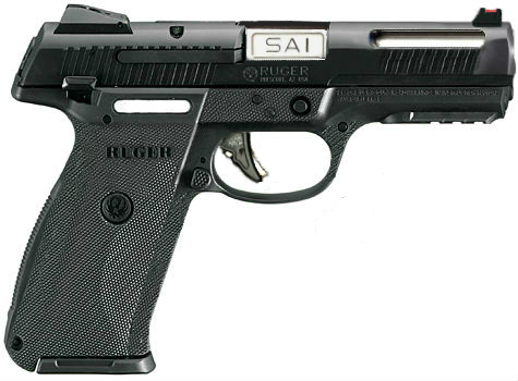 SR9 SAI Tier1 concept